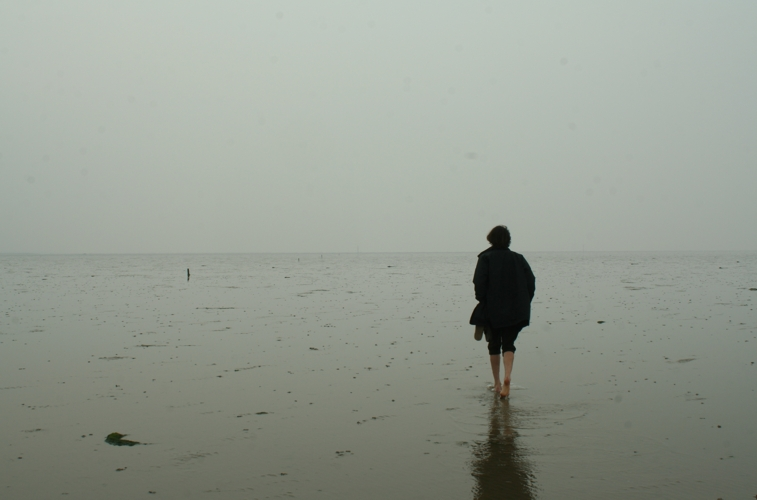 A walker on the Broomway, a tidal path off the coast of Essex, England.